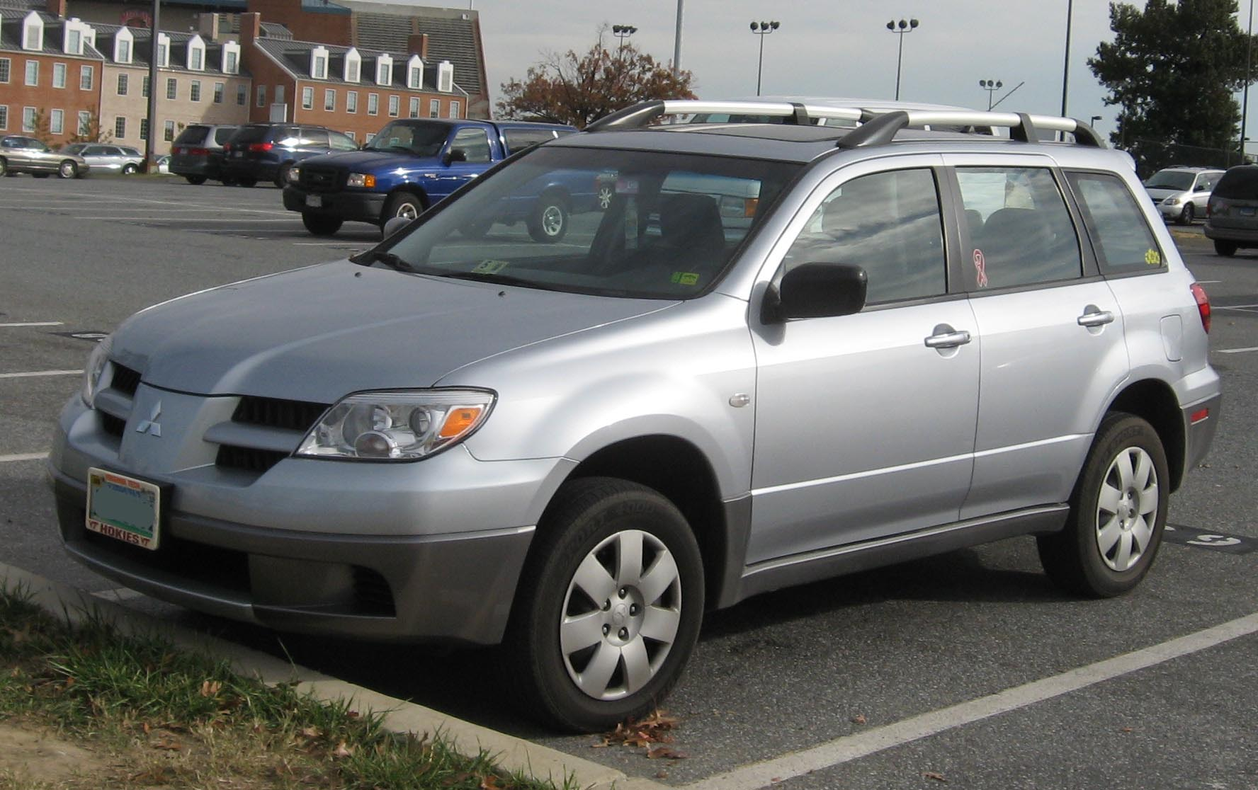 2006 Mitsubishi Outlander photographed in College Park, Maryland, USA.